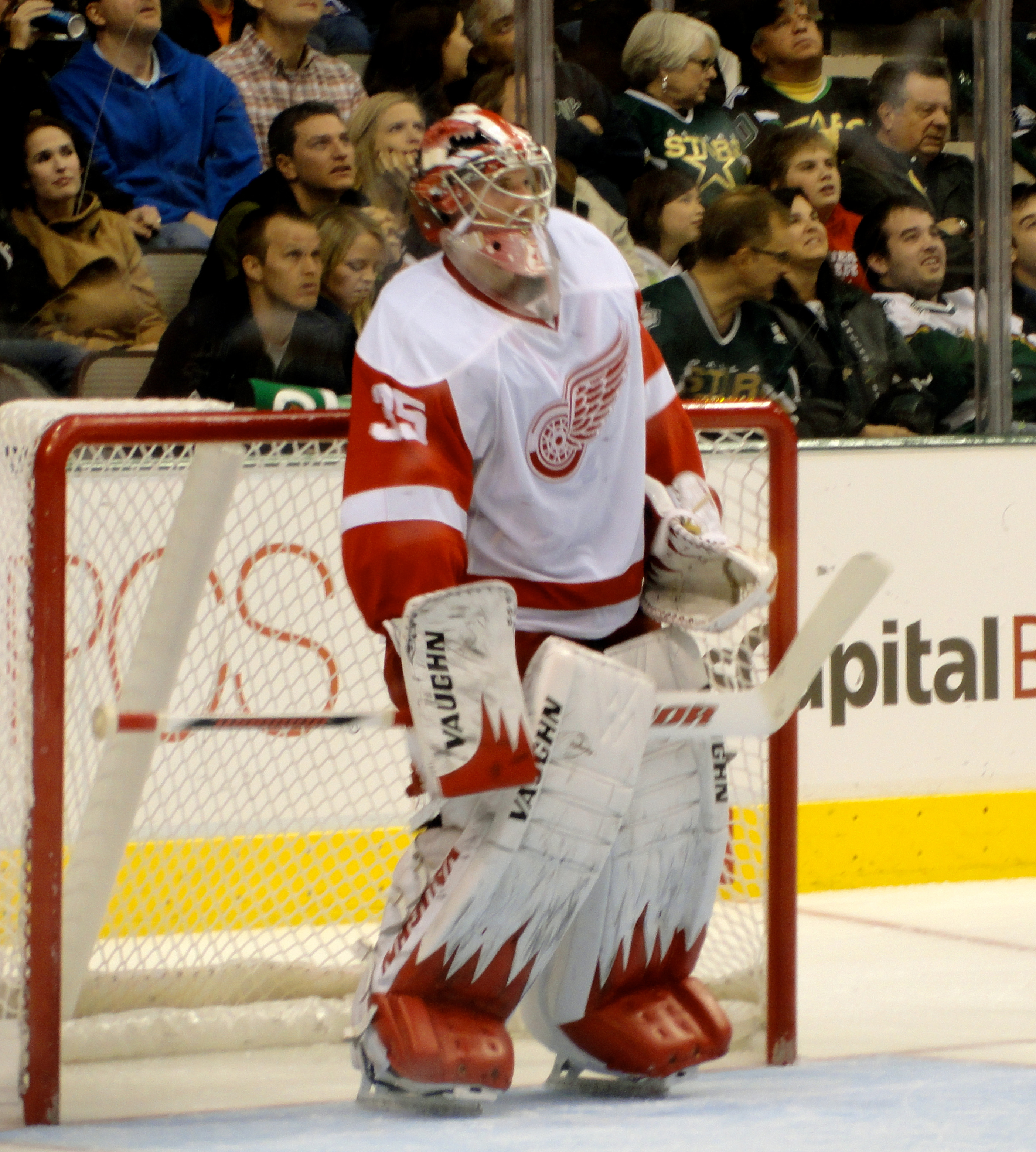 Goaltender Jimmy Howard of the Detroit Red Wings during a game at Dallas vs. the Dallas Stars on December 29, 2010. The Red Wings won the game 7-3.